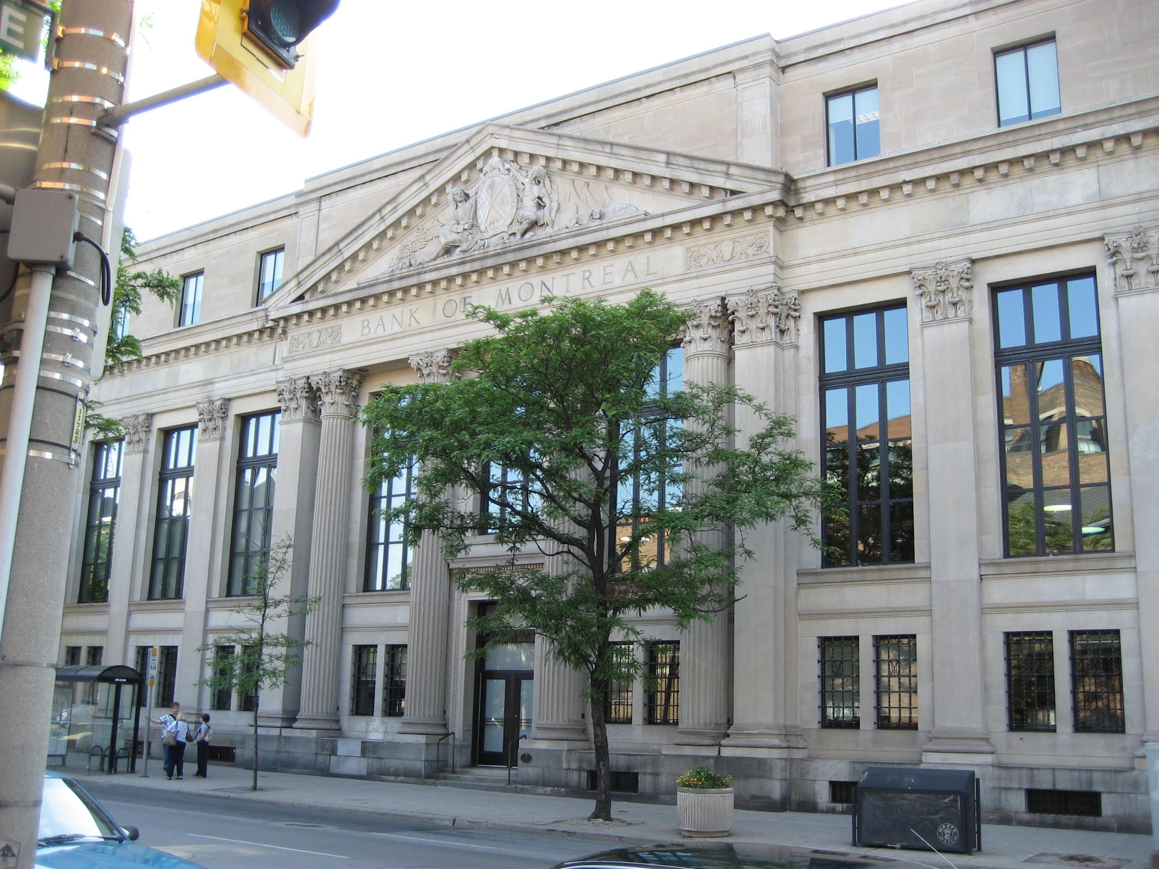 Bank of Montreal Building, National Law Office, downtown Hamilton, Ontario